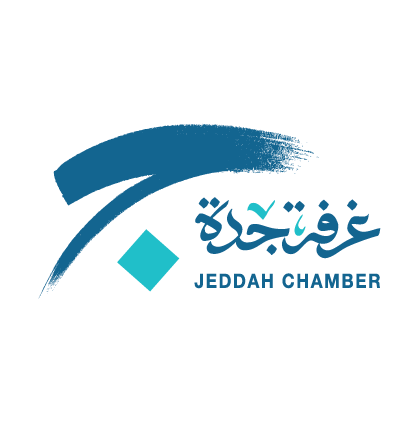 jeddah chamber logo